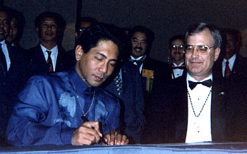 Signing of the Charter of the International Council of Alpha Phi Omega at the 1994 National Convention in Dallas-Fort Worth. Pictured in the photo is the National President of Alpha Phi Omega of the Philippines, Chato Marinas (left) and the National President of Alpha Phi Omega of the United States (Gerald A. Schroeder, right)